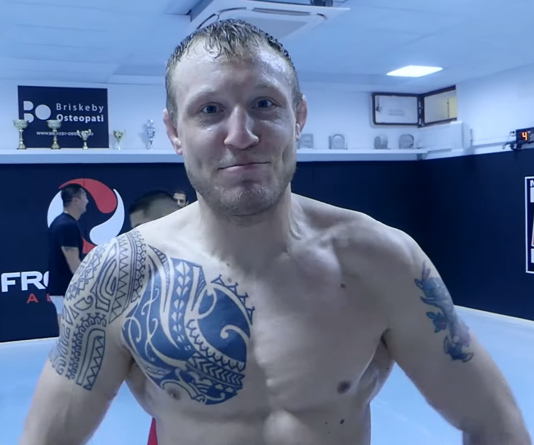 MMAnytt Focus Jack Hermansson Ep. 1: 'We got each others backs' UFCCopenhagen #JackHermansson #MMAnyttFocus MMAnytt follows Norwegian-based Swede Jack 'The Joker' Hermansson as he prepares for his upcoming main event fight against Jared Cannonier at UFC Copenhagen on the 28th of September. Visit Europe's biggest MMA website Follow us on our Social Media channels: Facebook: Instagram: Twitter